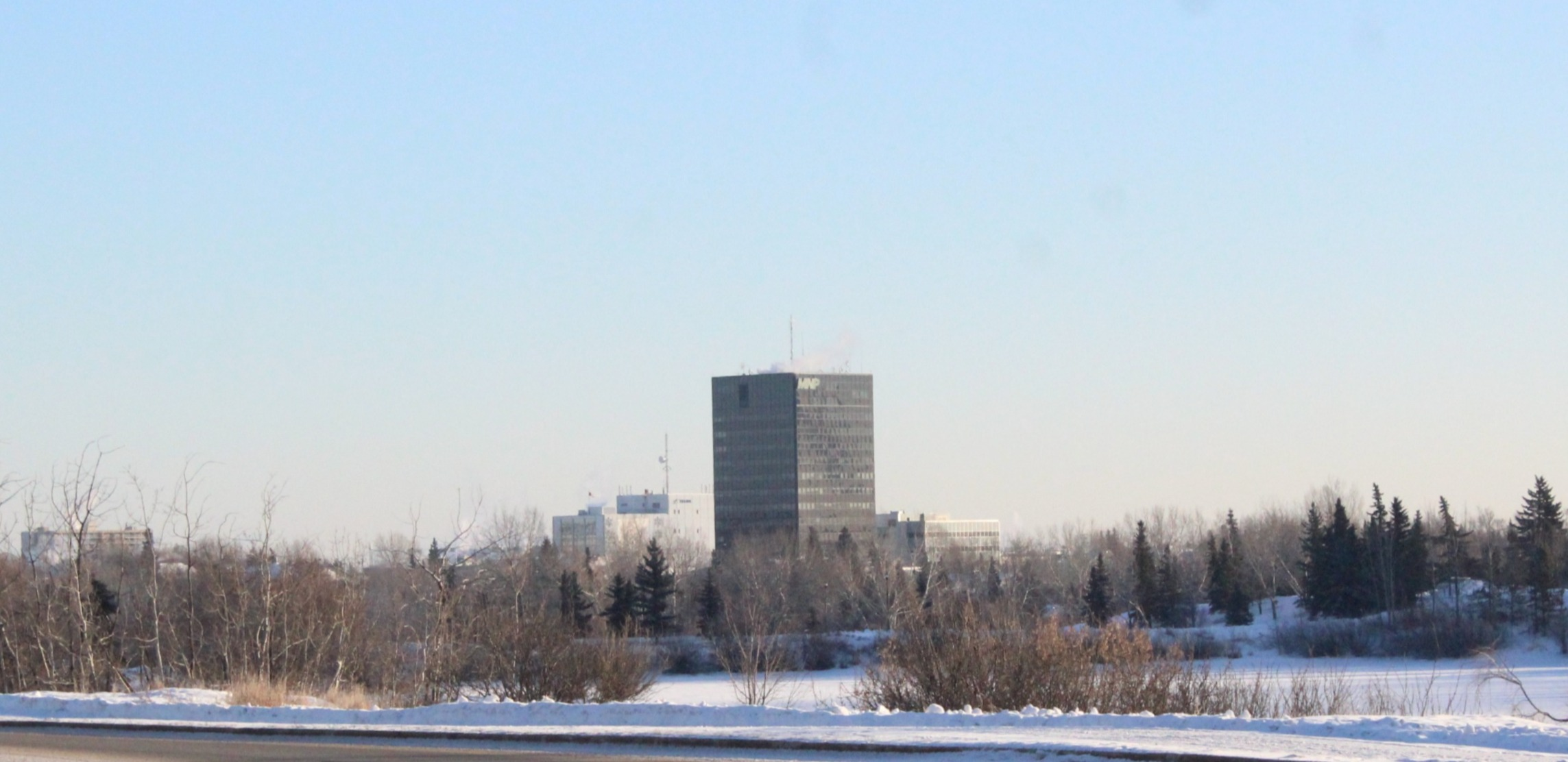 Skyline of Grande Prairie, Alberta at 2:30pm on 30 December 2017